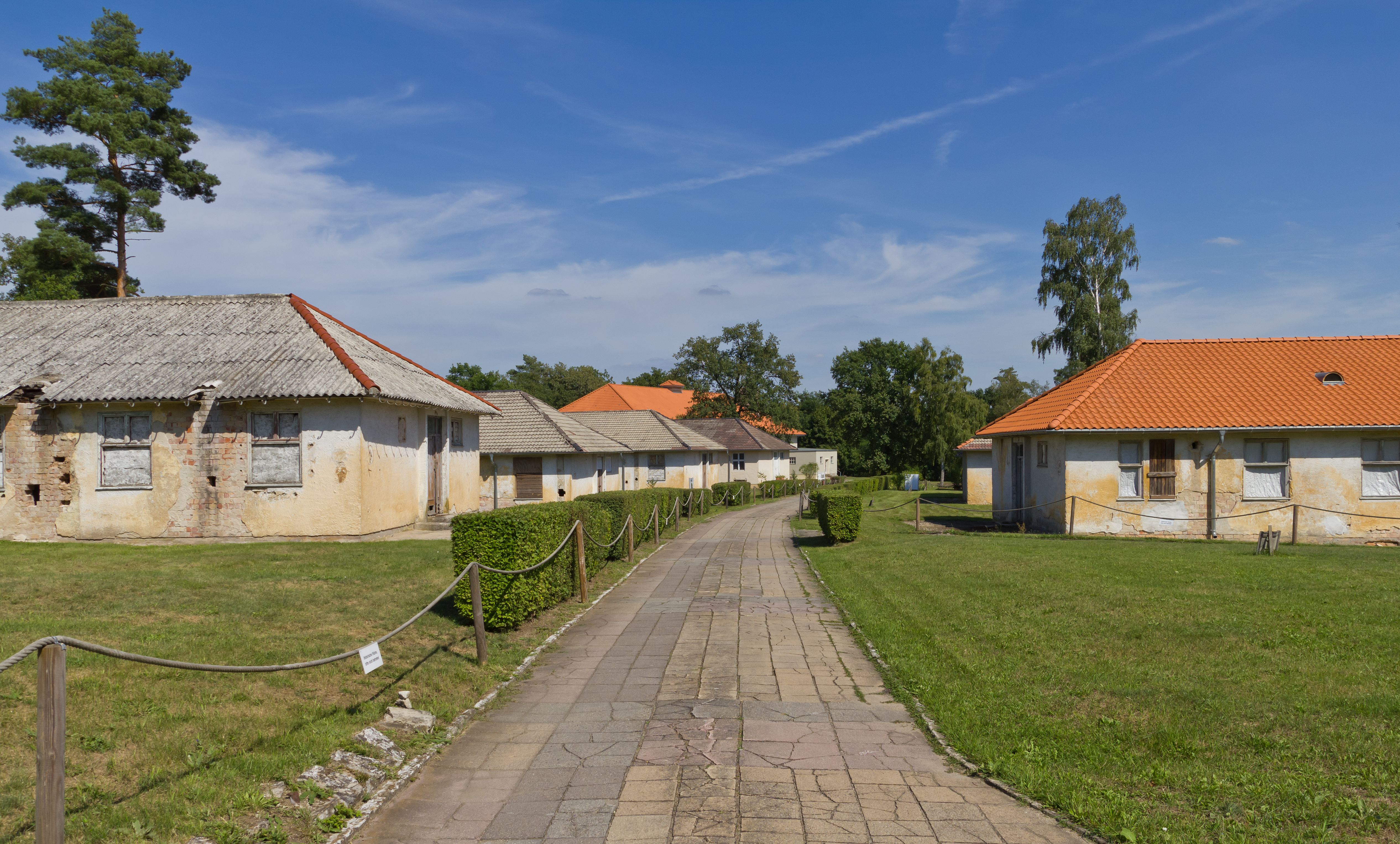 Former residential houses for sportspeople in the Berlin Olympic Village (built for the 1936 games) near Berlin, Germany